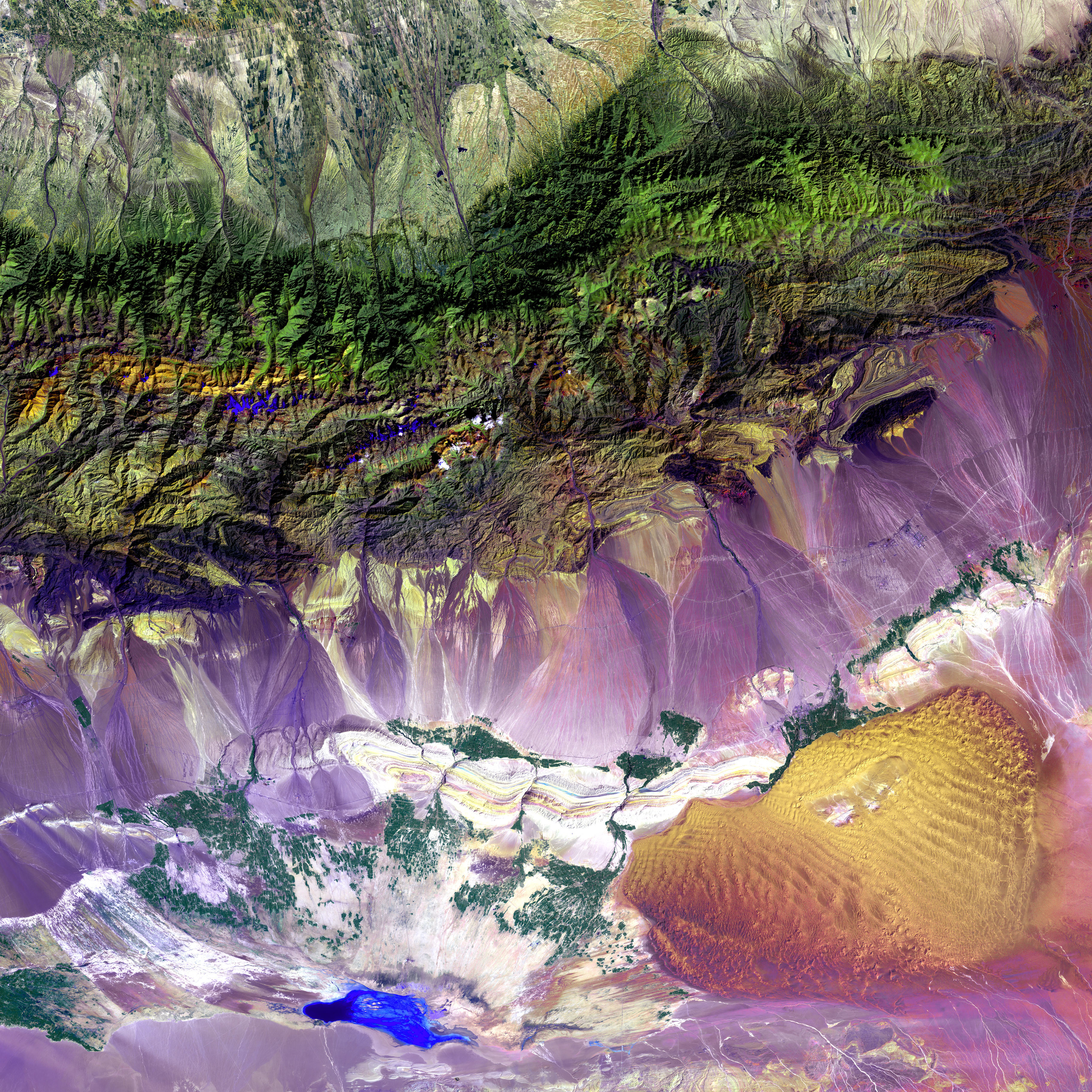 The Turpan Depression, nestled at the foot of China’s Bogda Mountains, is a strange mix of salt lakes and sand dunes. It is one of the few landscapes in the world that lies below sea level.